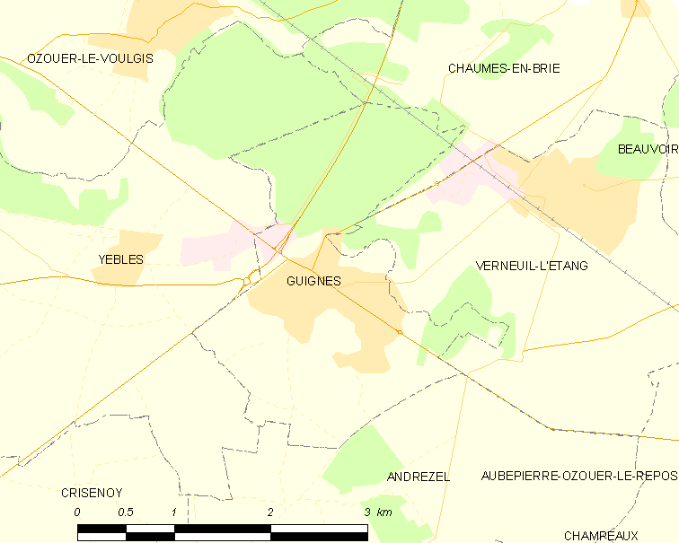 Map of French municipality Guignes